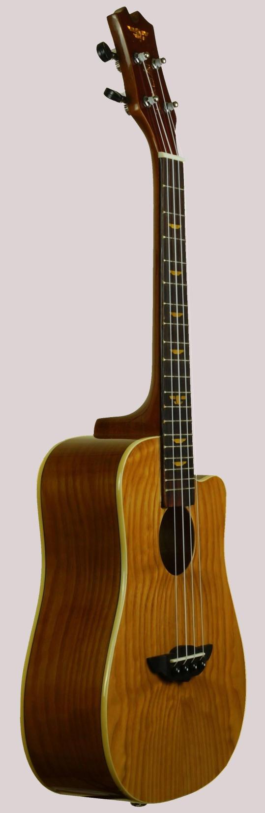 2016/17 Chinese made laminate ash (soundboard) laminate sapele (back and sides) tenor scale acoustic ukulele branded Urban and made for Keith Urban Guitars bass side view